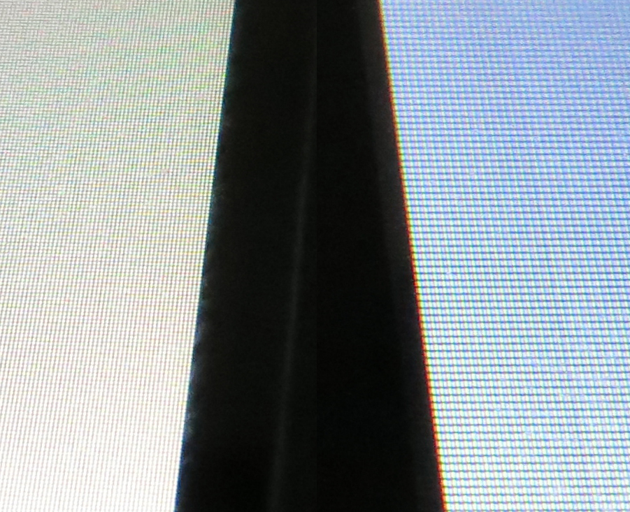 Retina Display (left) 163ppi Display (right)